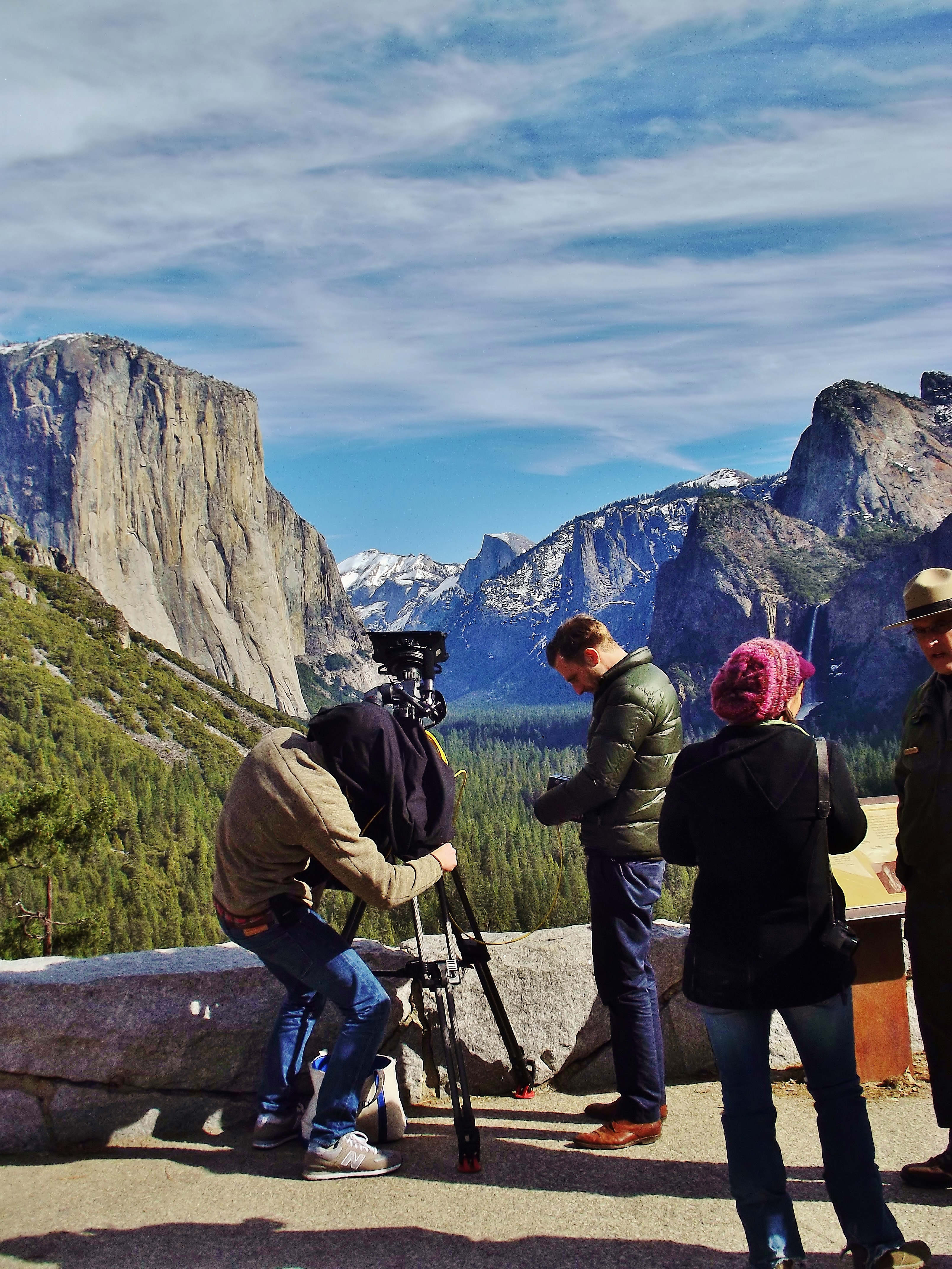 A travel channel films Yosemite Valley while assisted by the National Park Service.